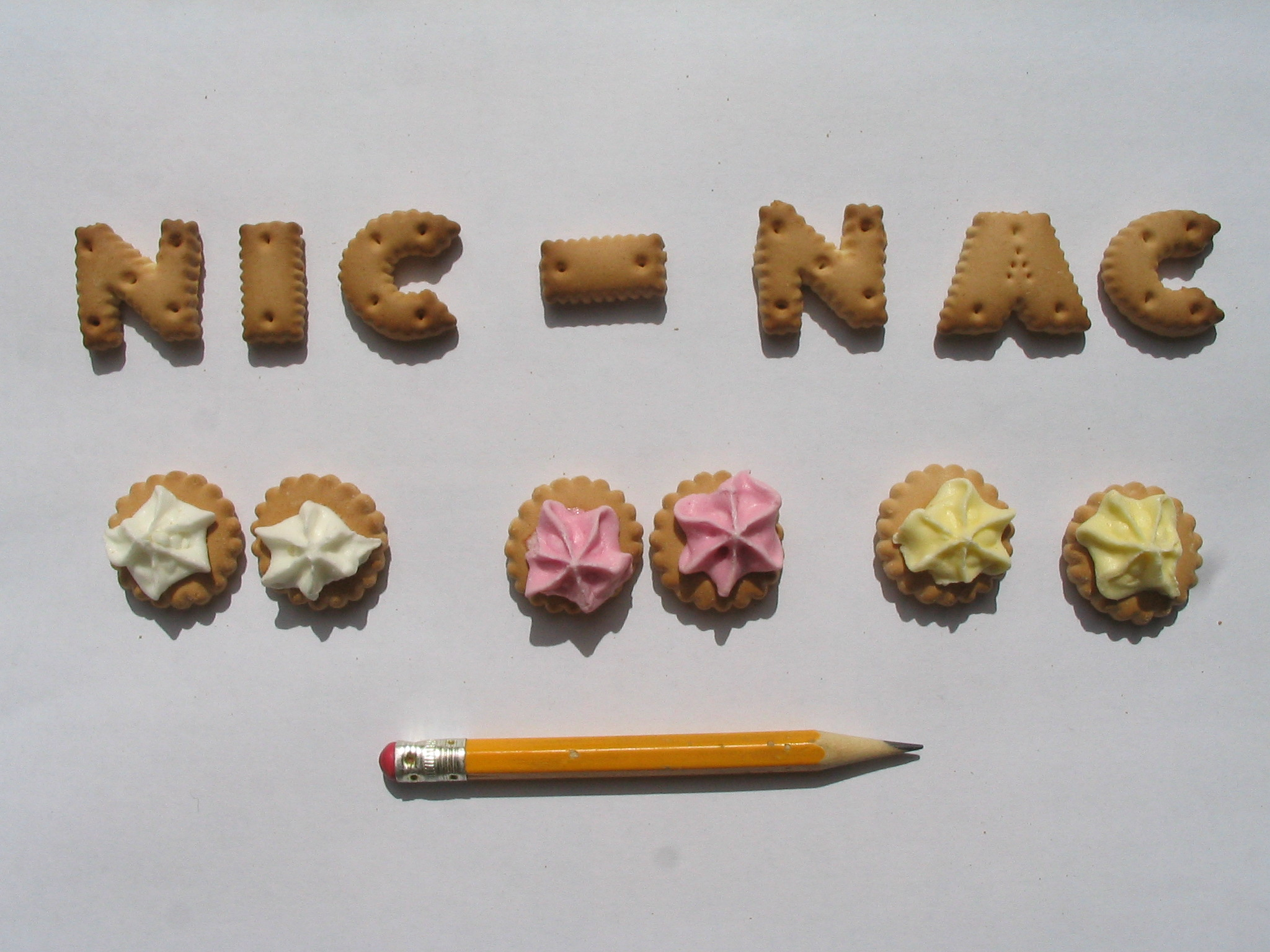 Nic-Nacs (a kind of biscuit in Belgium)